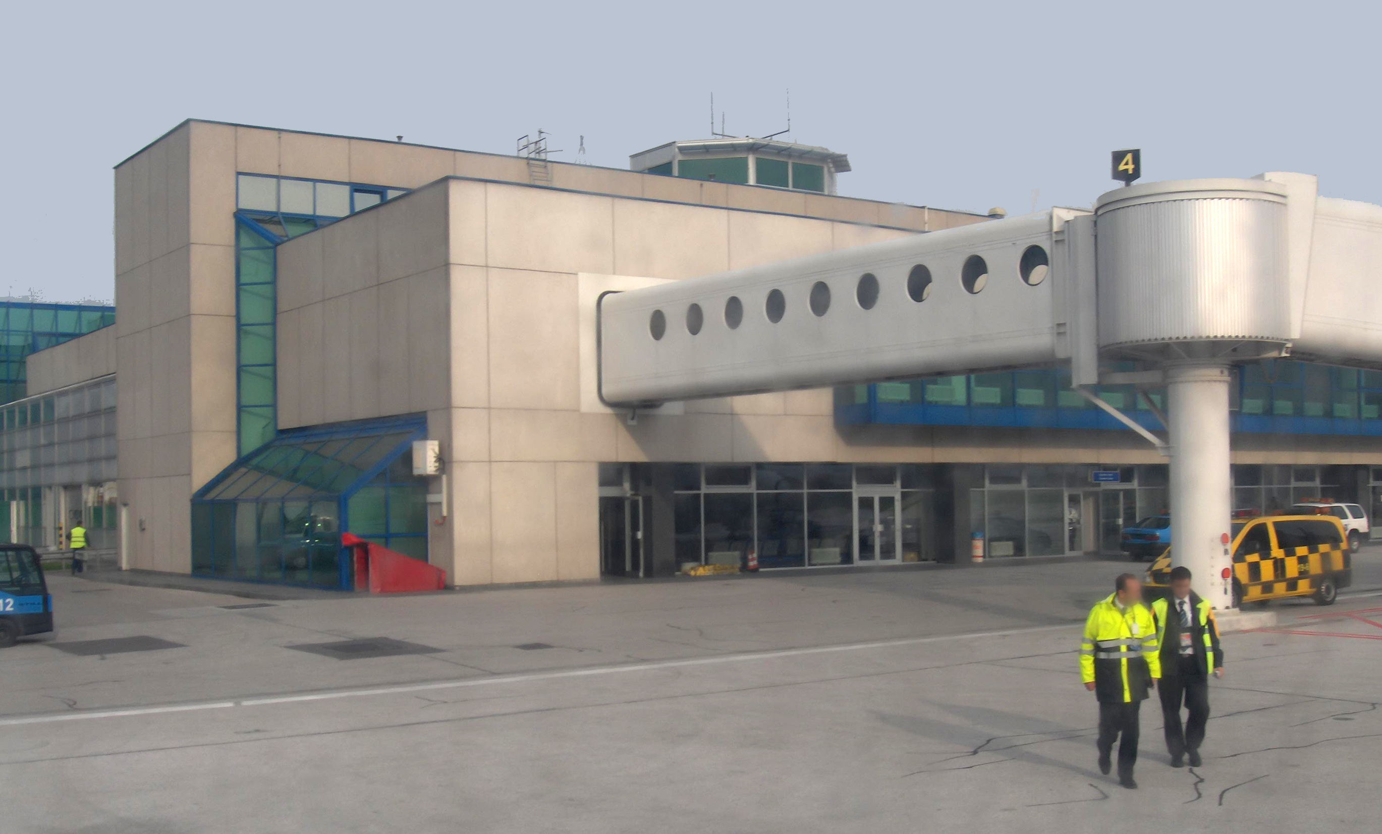 External view of Gate 4 of Sarajevo International Airport in 2007.